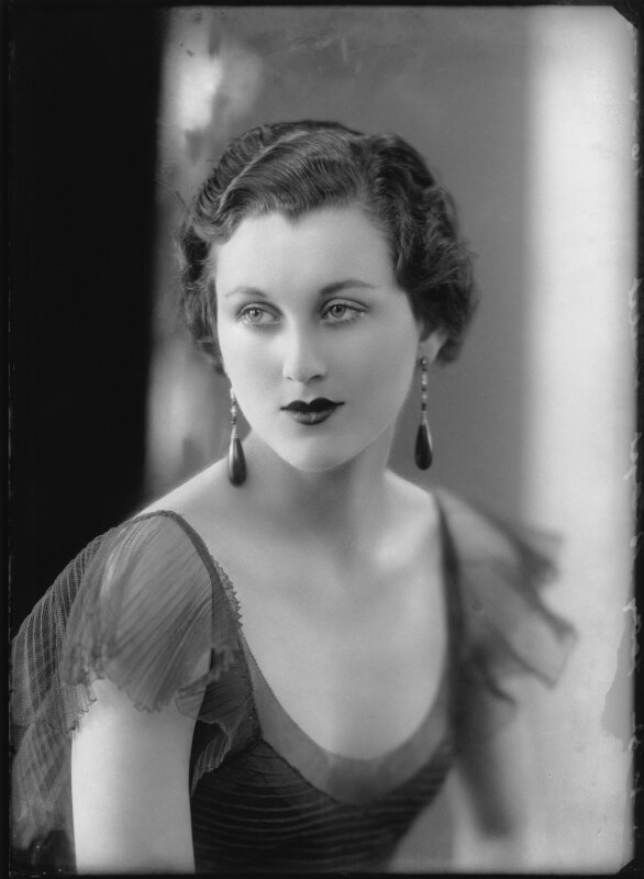 Lady Bridget Poulett by Bassano Ltd half-plate glass negative, 4 April 1933 Given by Bassano & Vandyk Studios, 1974 Photographs Collection NPG x80992